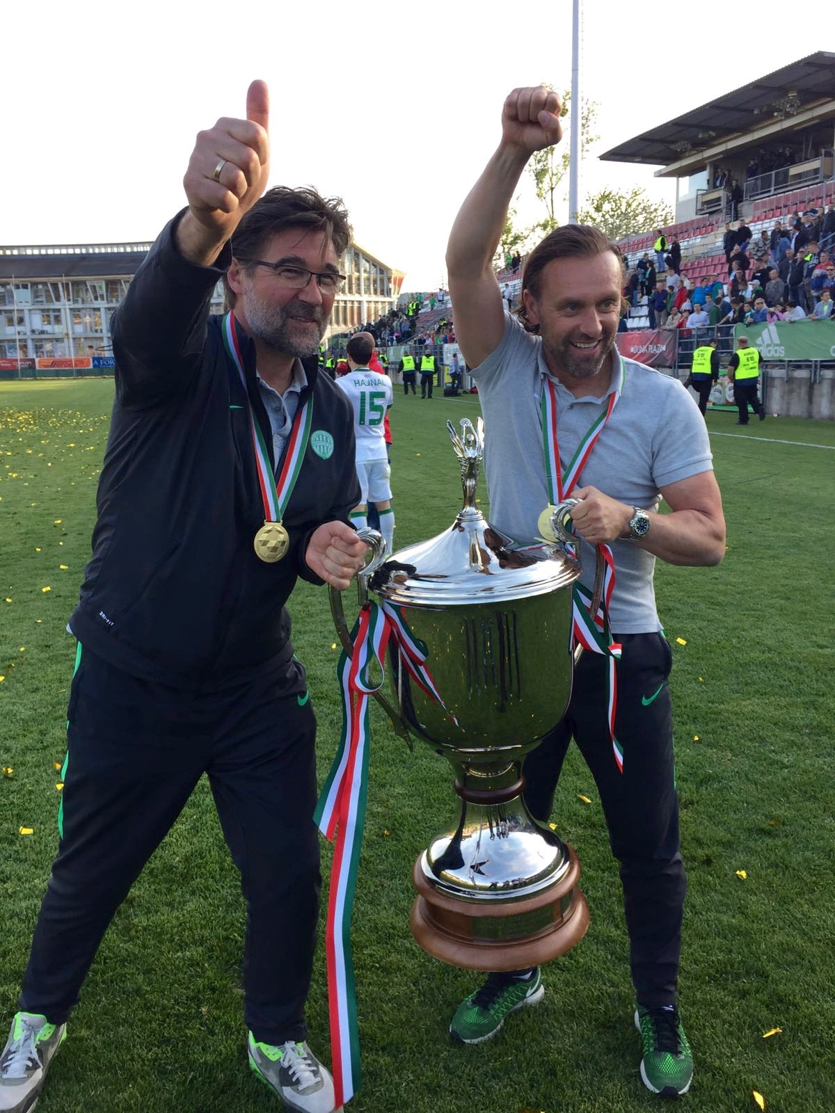 Ralf Zumdick, is a former German football goalkeeper and coach.